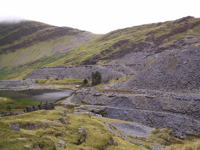 Cwmorthin slate quarry. This place is suffering frequent collapses. Worked as recently as the 1980's, its history is very well documented.